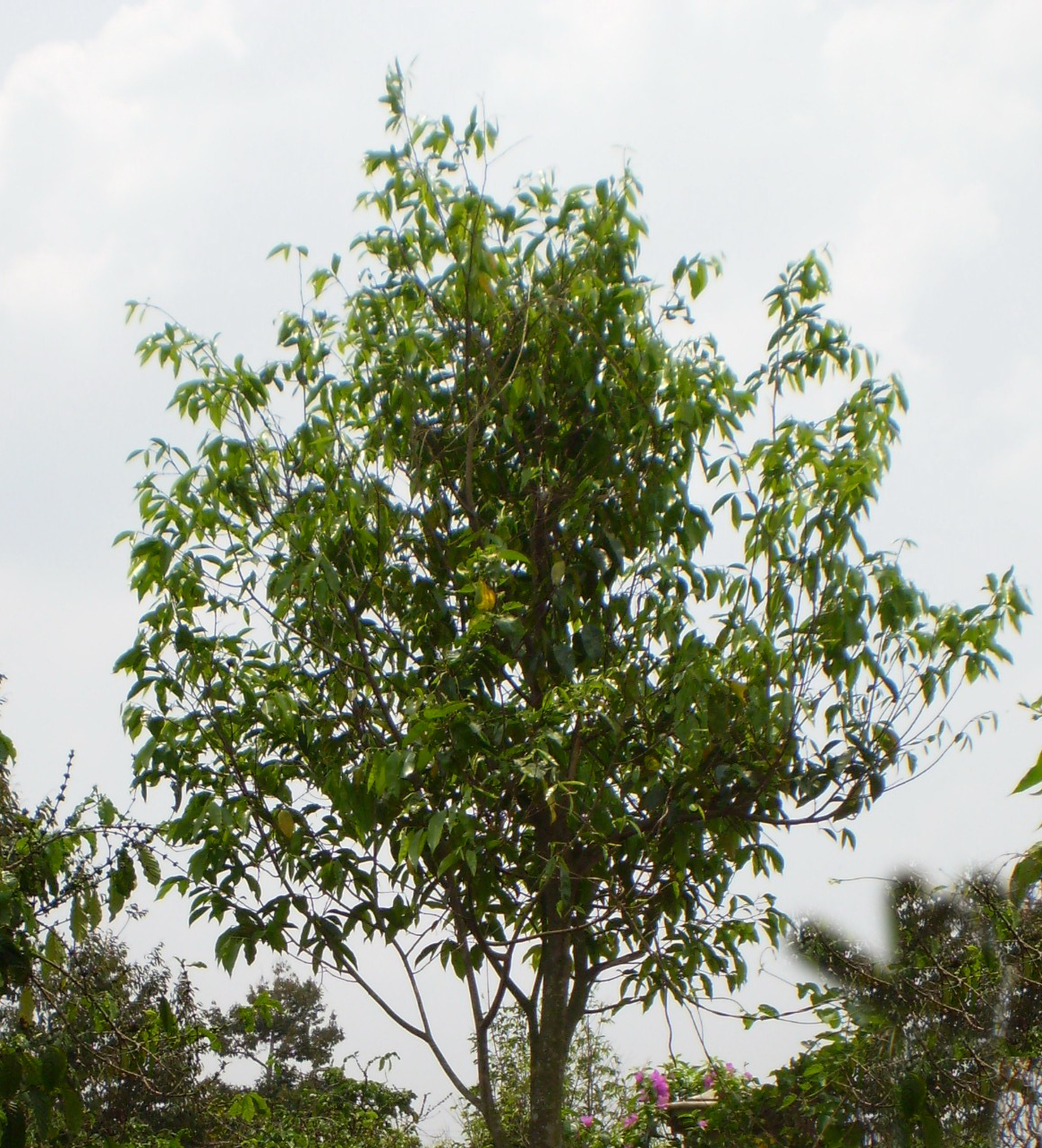 Aquilaria